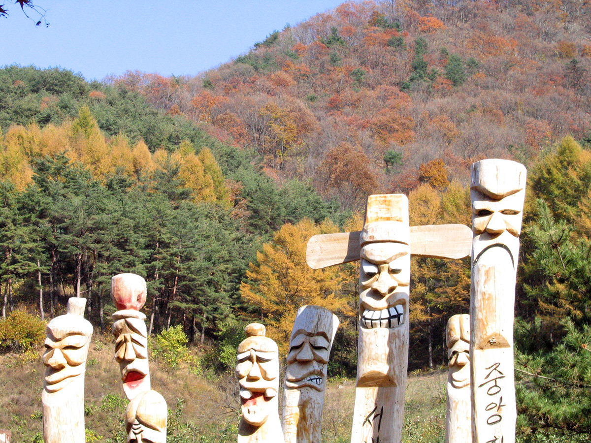 Poles at Mungyeong Park in Autumn in Korea